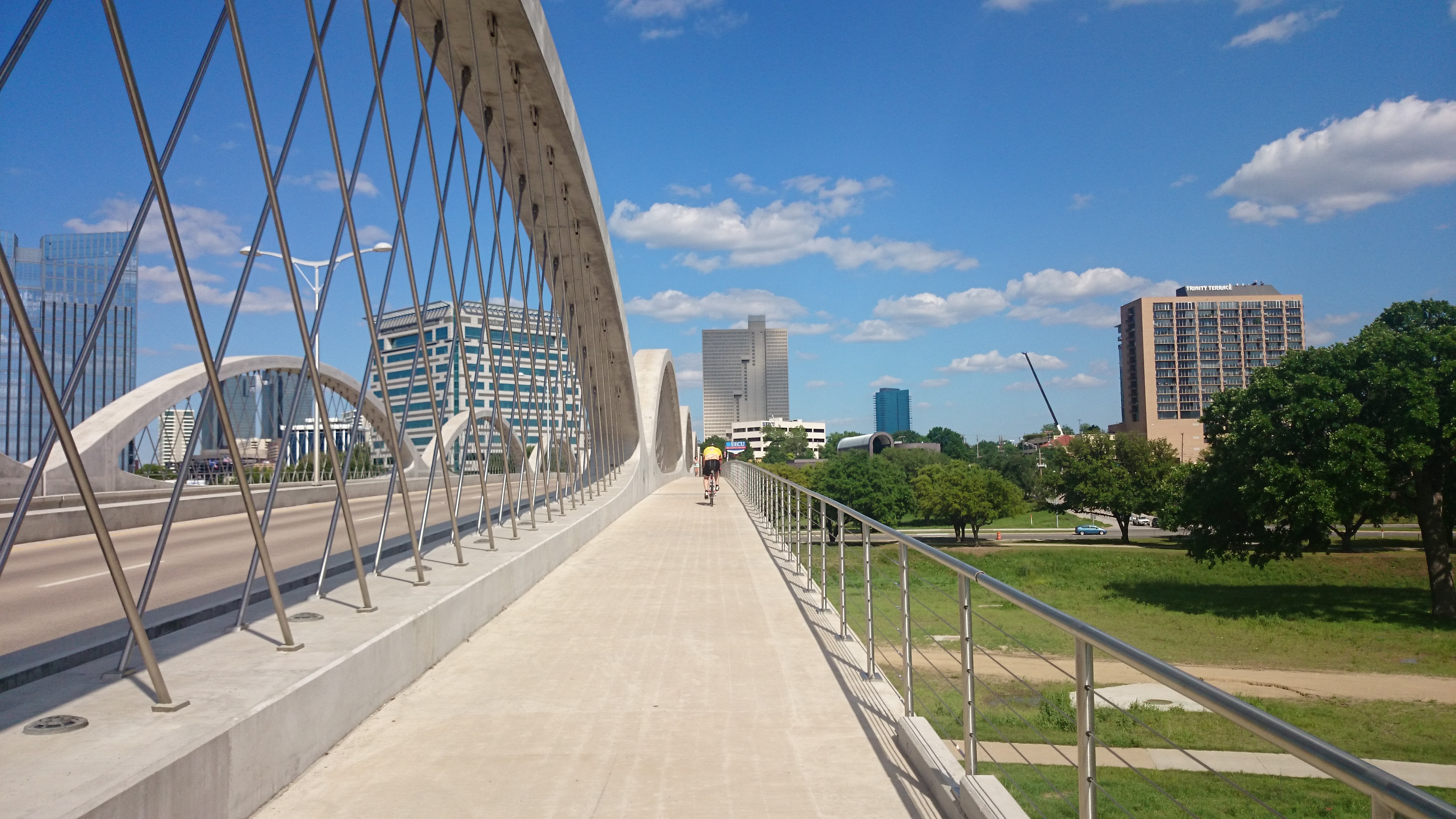 An image of the W 7th bridge bikeway in Fort Worth, Texas.